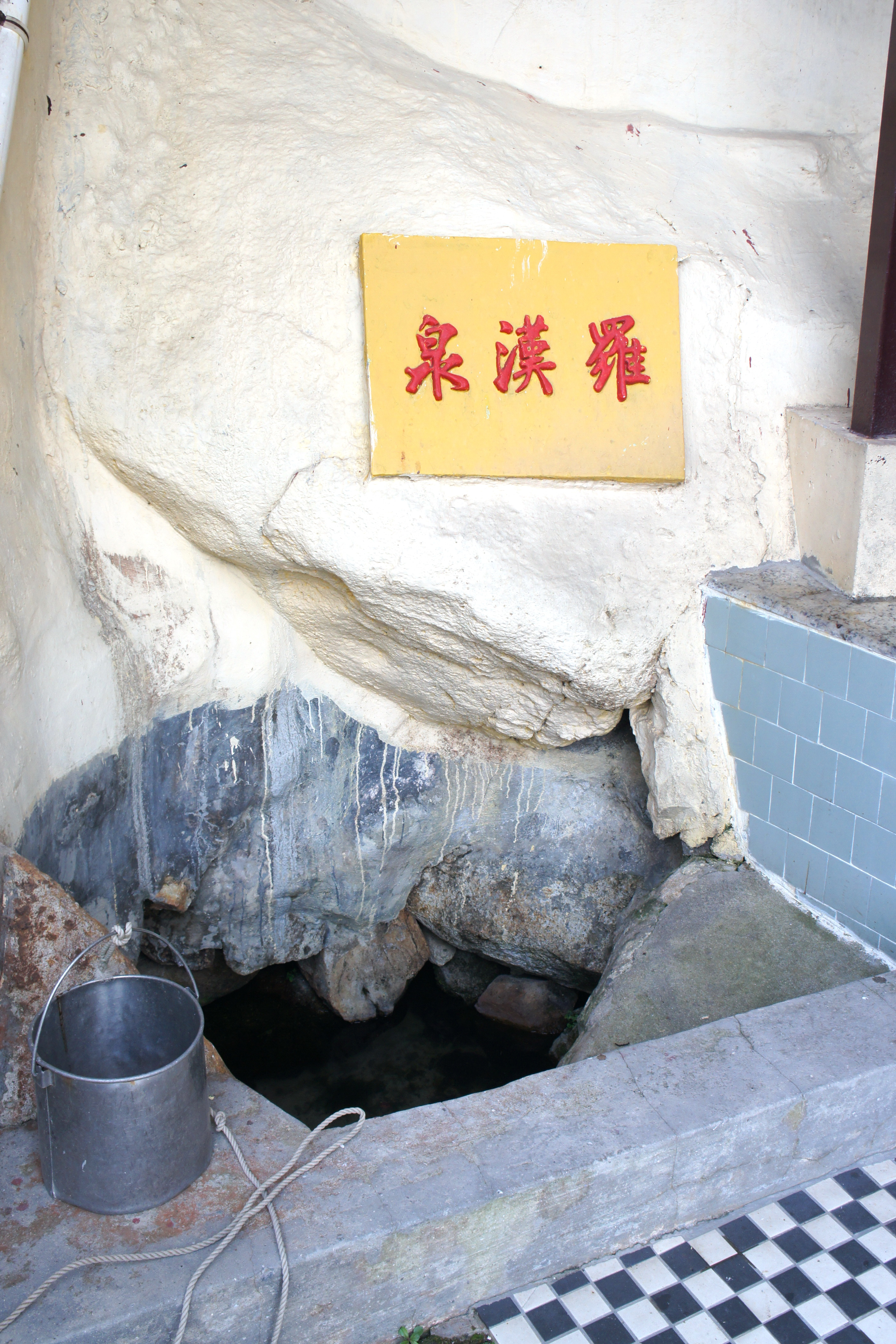 Lo Hon Spring (Arhat's Spring), Lo Hon Monastery, Shek Mun Kap, Tung Chung, Hong Kong.